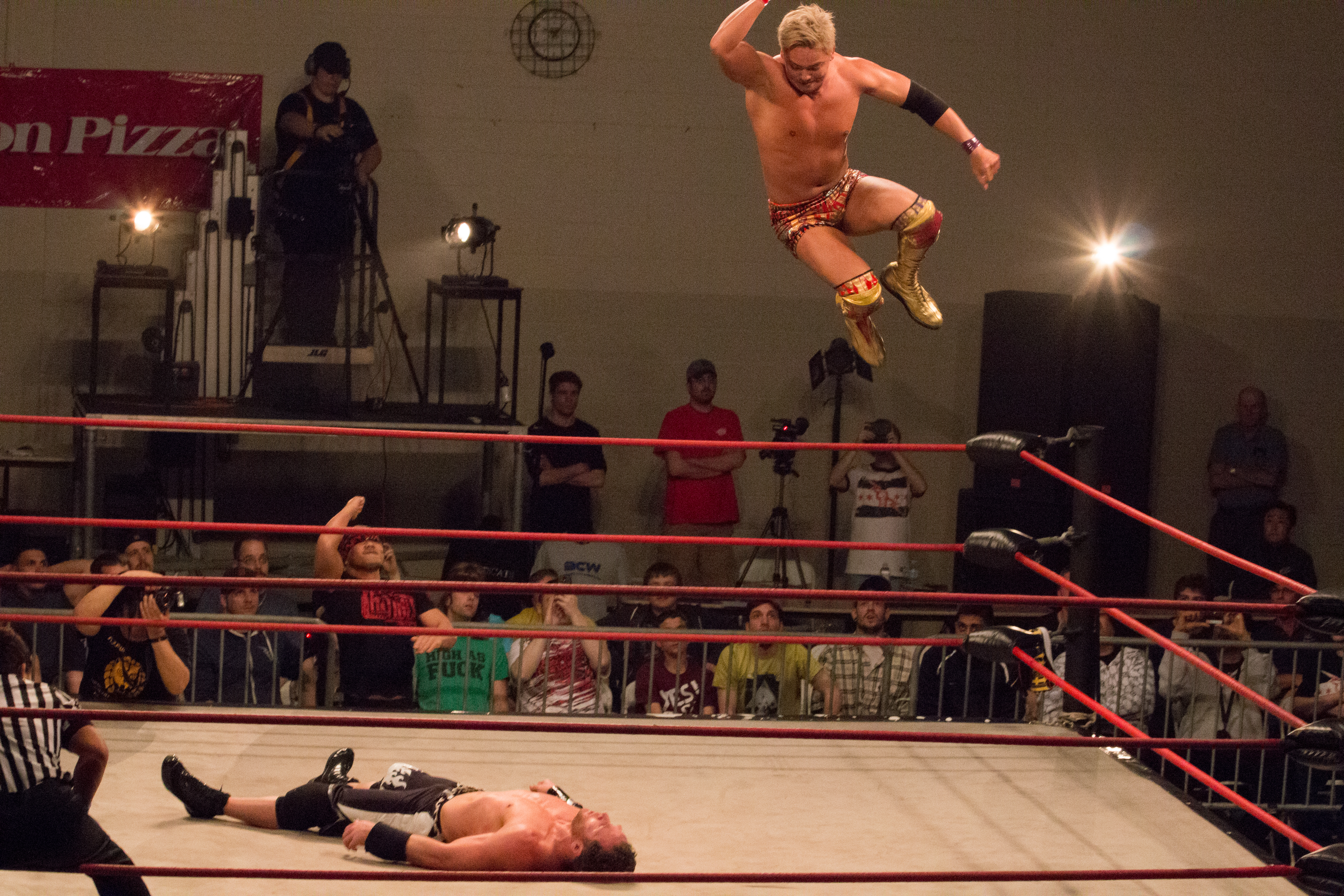 Kazuchika Okada executing a flying elbow drop on Chris Sabin at BCW's East Meets West show at St Clair College in Windsor, ON